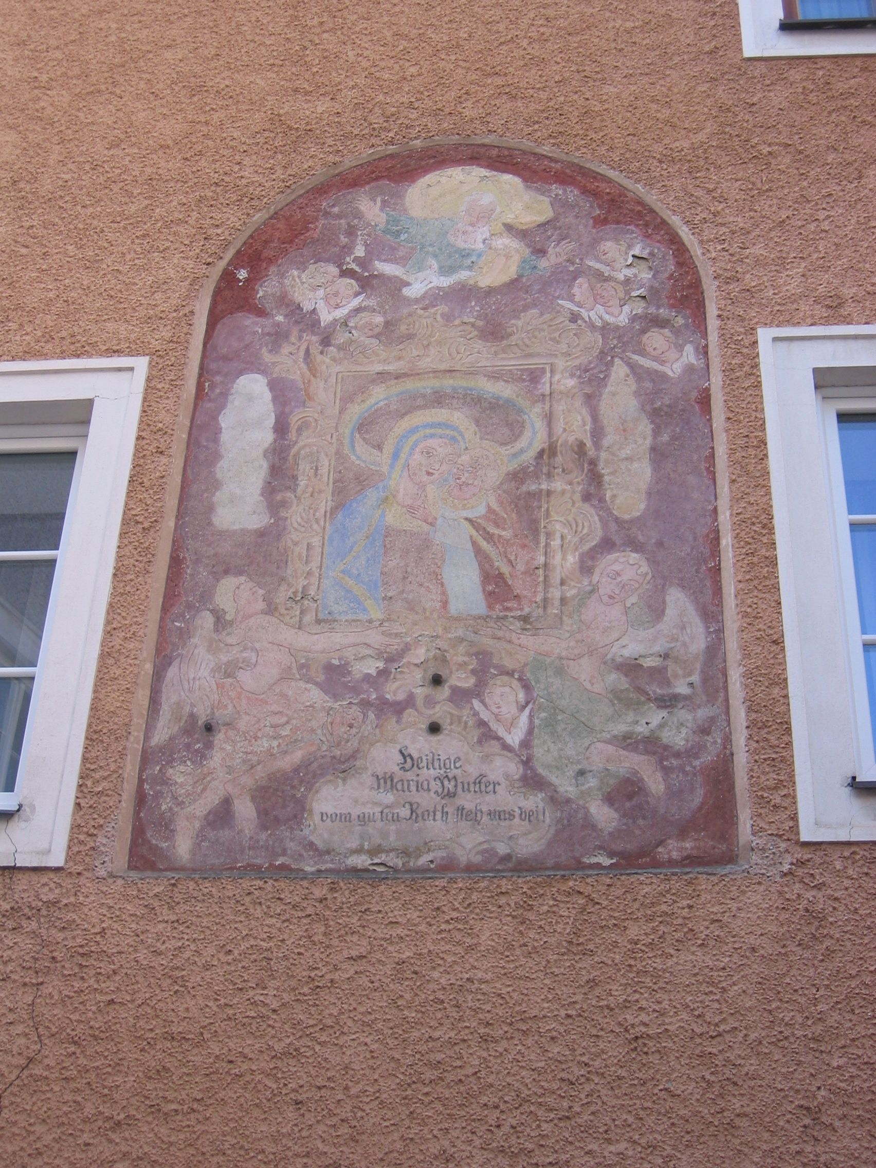 House at the Pfarrplatz in Freistadt, Upper Austria